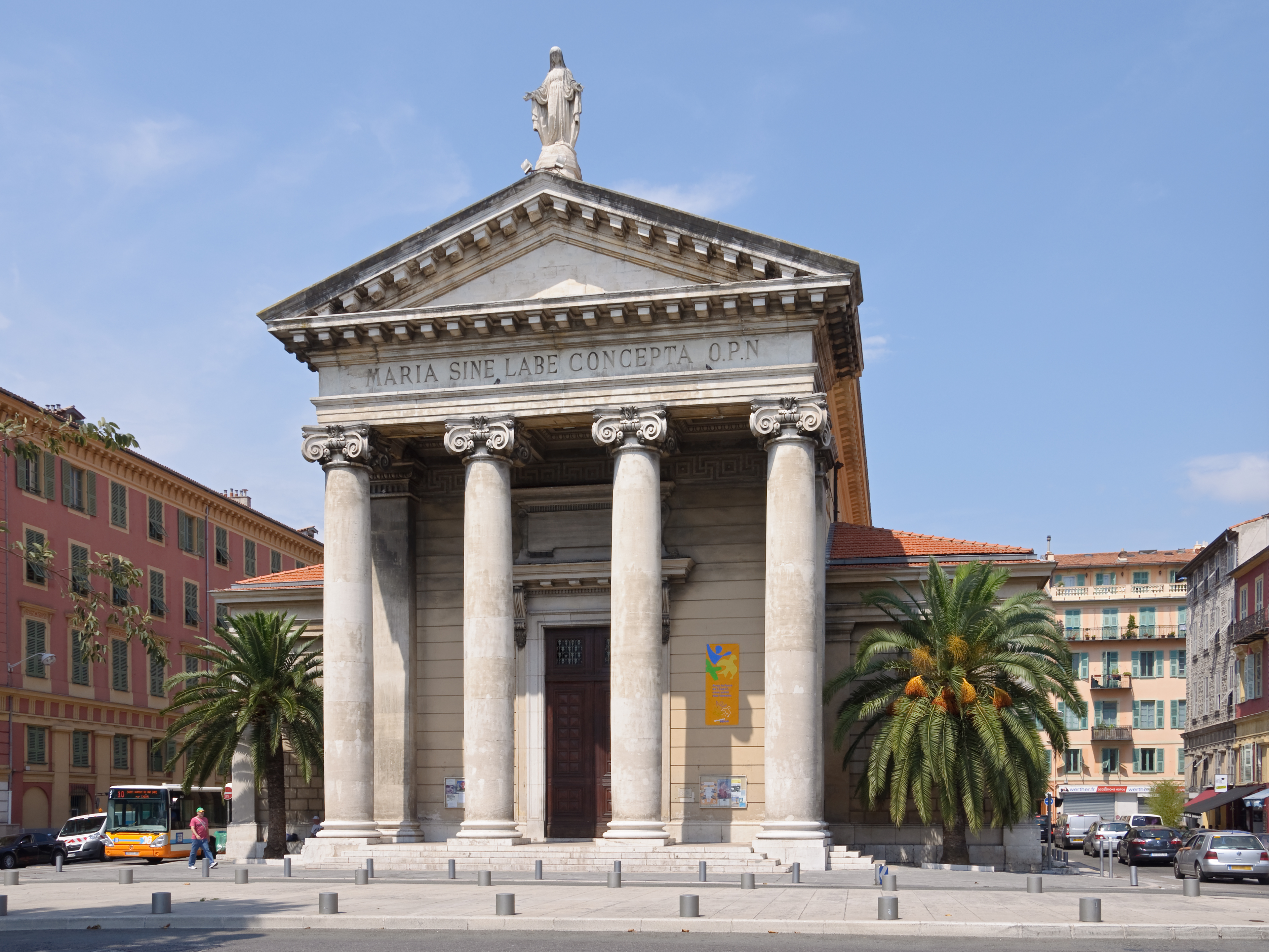 The church Notre-Dame du Port (“Our Lady of the Harbour”) in Nice, French Riviera (Alpes-Maritimes, Provence-Alpes-Côte d'Azur, France). .